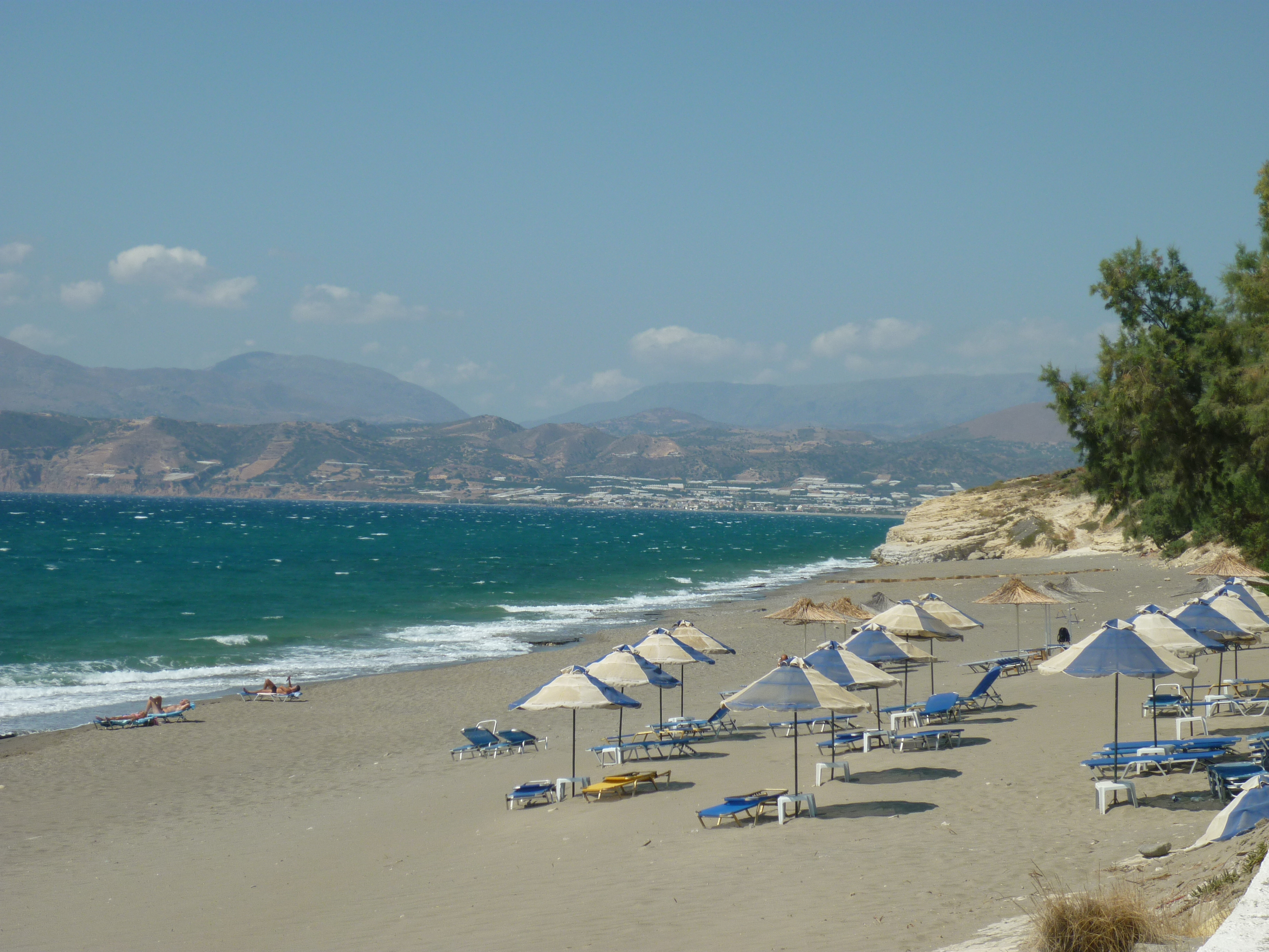 Beach of Kalamaki, Crete, view to Kokkinos Pirgos.